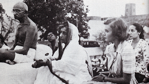 Gandhi and Lady Mountbatten during prayer